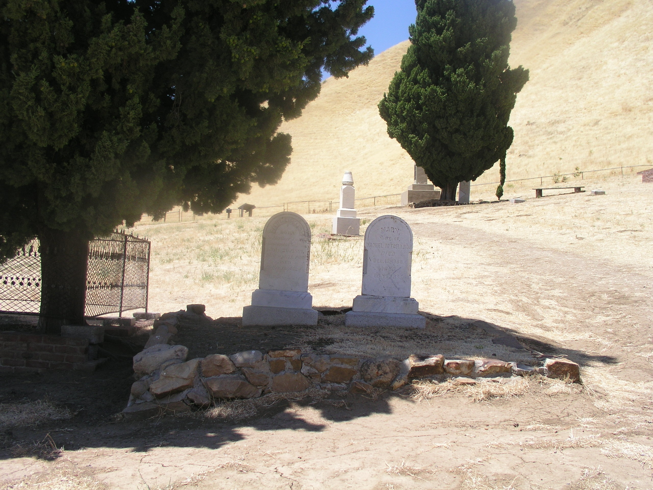 Two headstones or gravestones in Rose Hill Cemetery in the old Nortonville site at the Black Diamond Mines near Antioch, California United States. Most of the people from the town were Welsh. The cemetery dates around the 1800's.